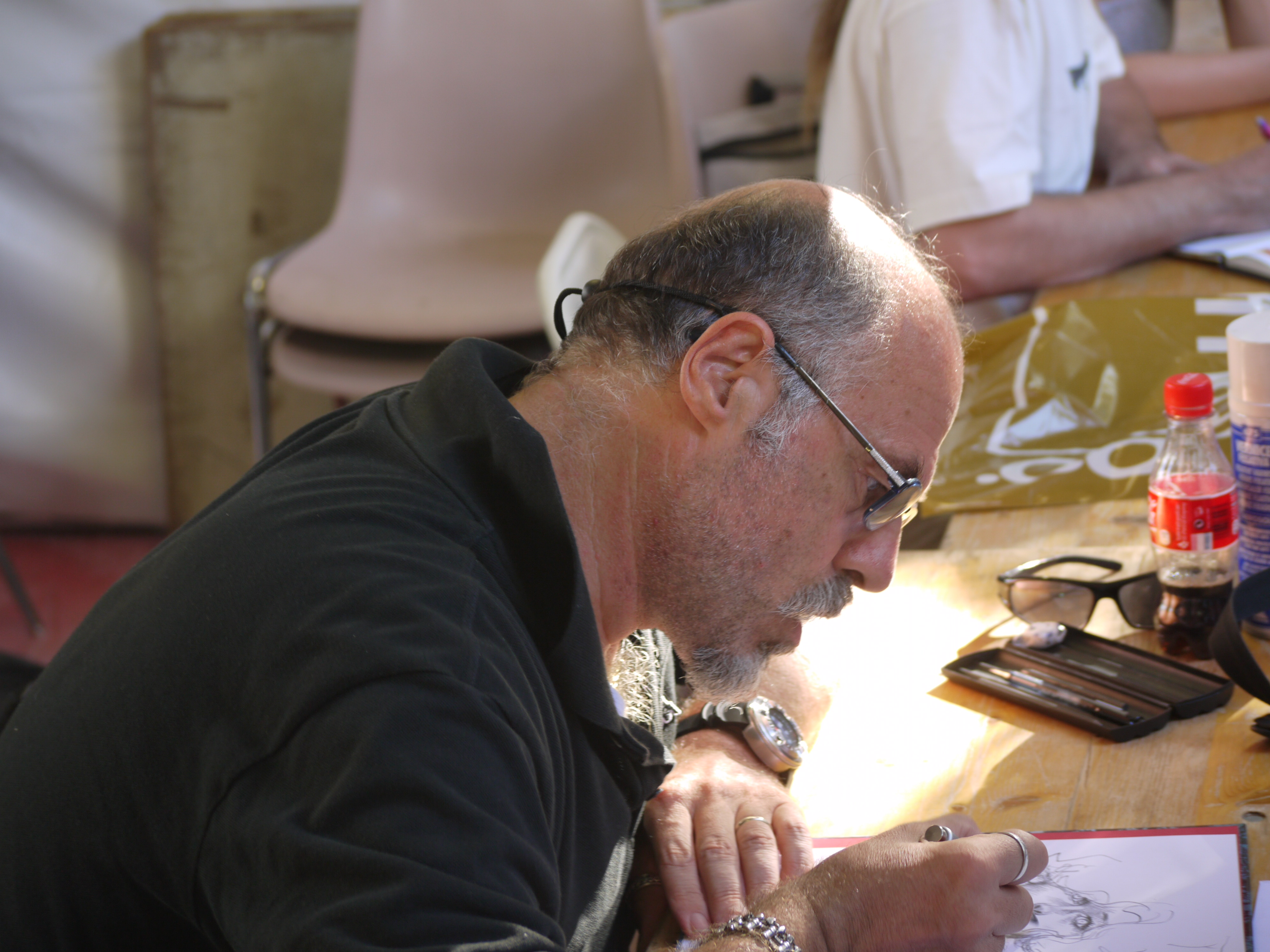 Photograph taken during the 2009 edition of the Comic Strip Festival of Sollies Ville in France. - OpenStreetMap(Info)